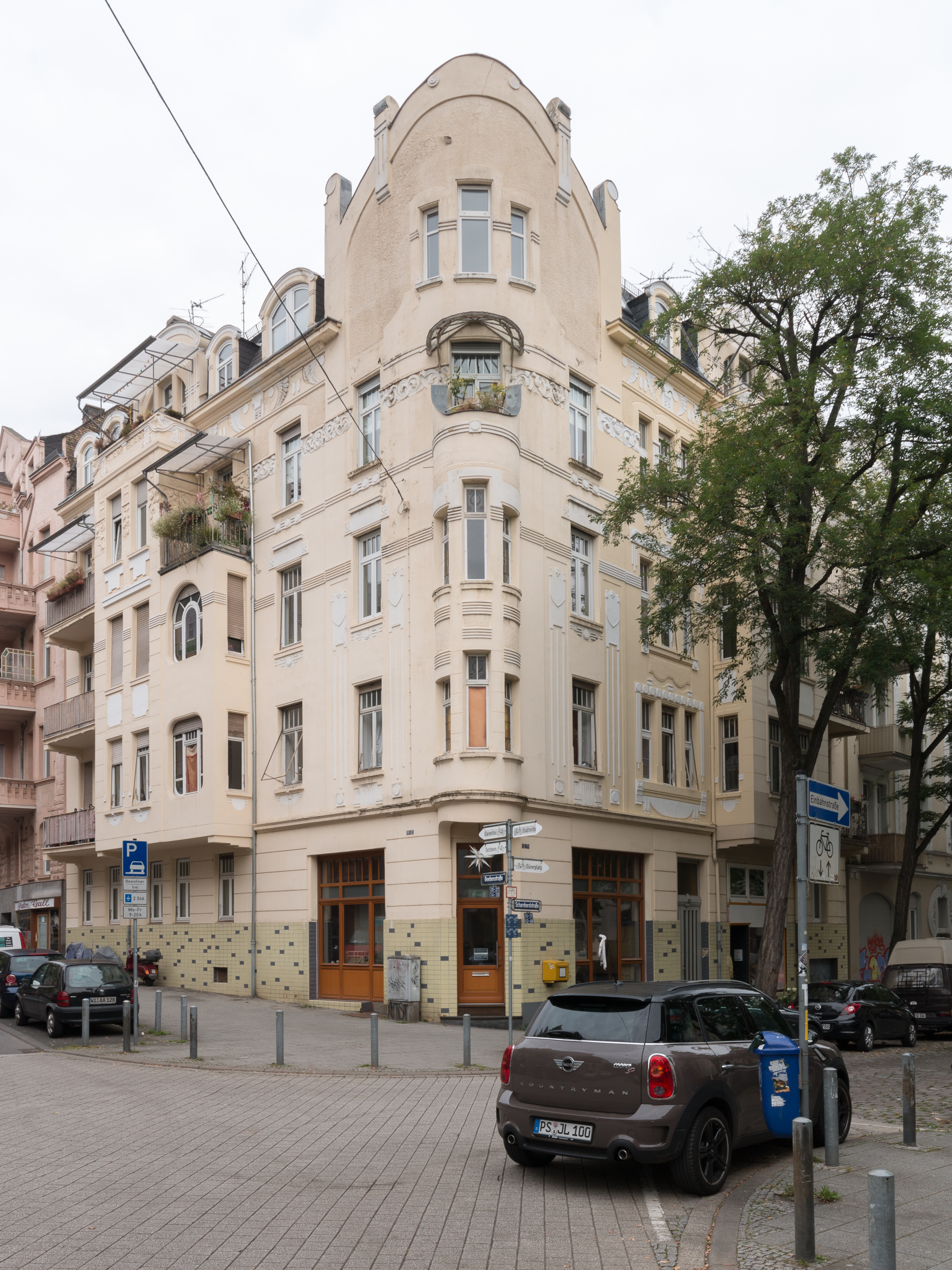 The building Scharnhorststraße 12 in Wiesbaden